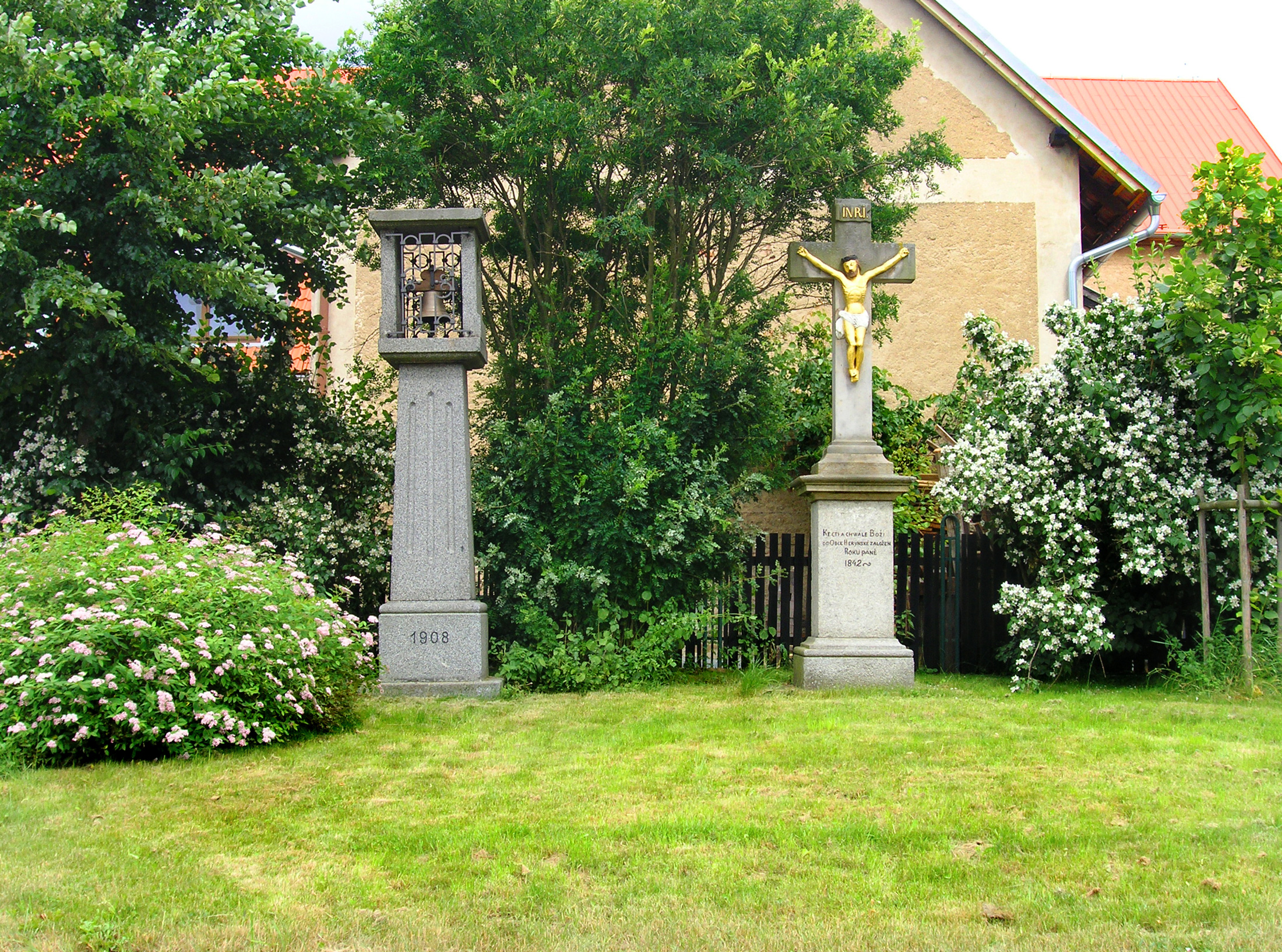 Crucifix in Herink, Czech Republic